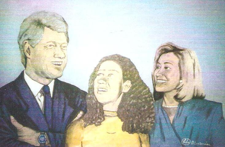 Artist: Larry D. Alexander Source: Larry D. Alexander's Home Files Title: "The Clinton Family Portrait" Medium: Oil on Canvass Size: 24" x 36" Year: 1995